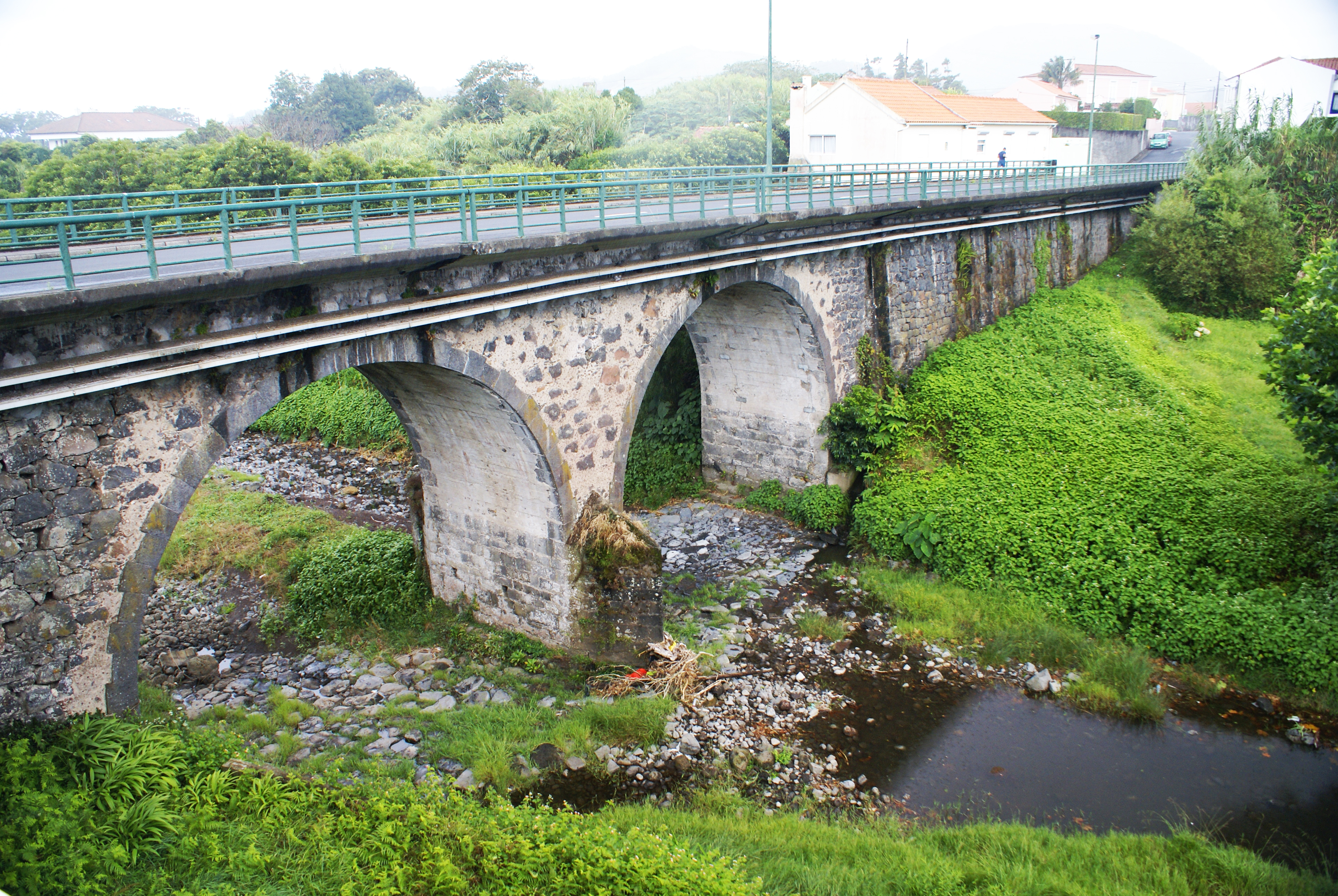 Ponte dos Flamengos, Flamengos, concelho da Horta, ilha do Faial, Açores, Portugal